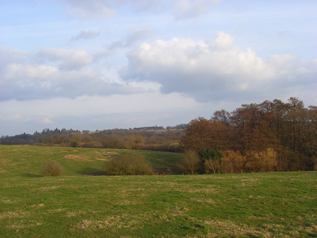 Pastures, Enborne Fields alongside Avery's Pightle with a view towards Wash Common.